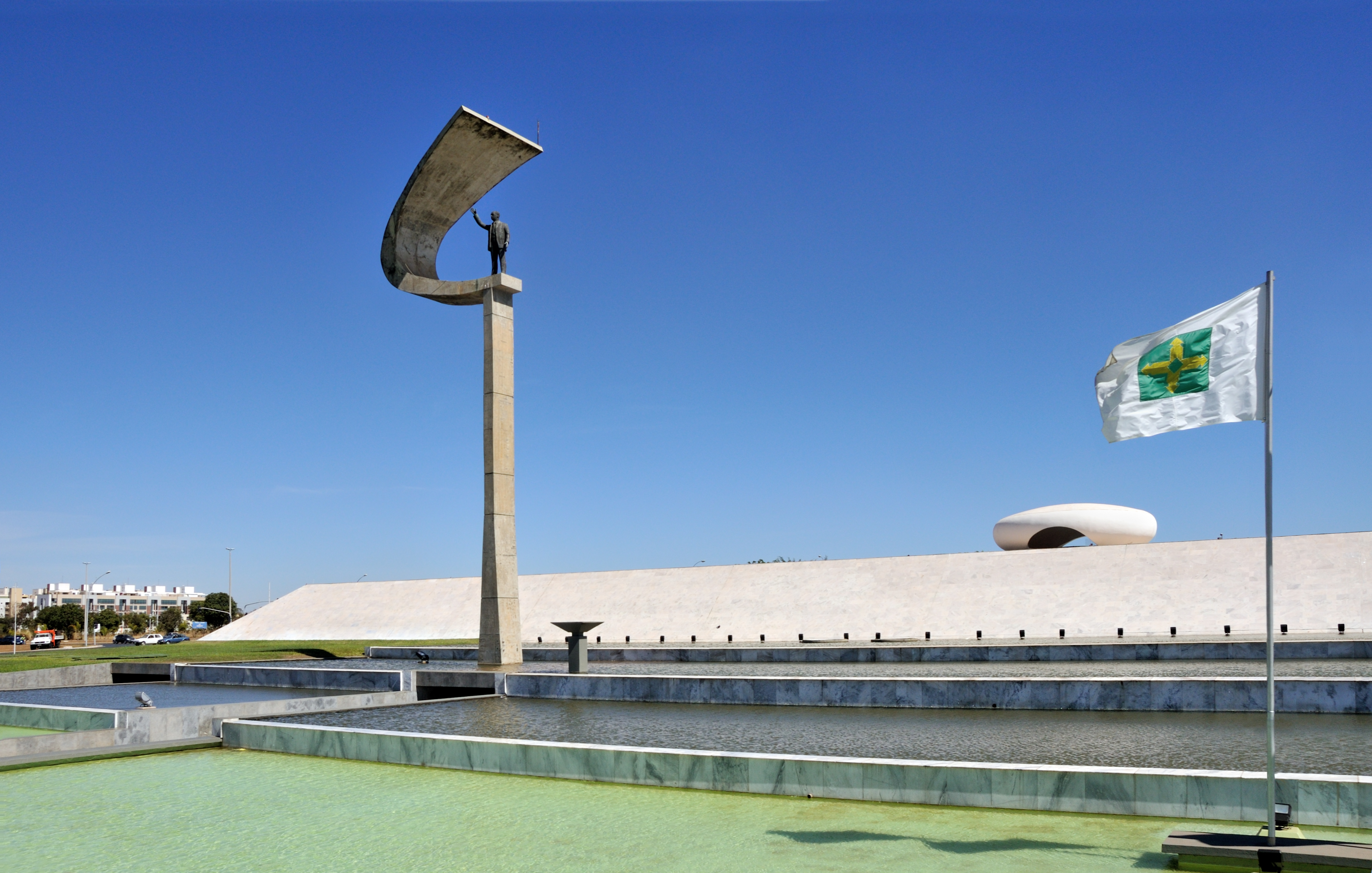 The JK Memorial in Brasília, dedicated to Juscelino Kubitschek (1902-1976), the founder of Brasília. The building was inaugurated in 1981. The architect is Oscar Niemeyer (1907-2012).